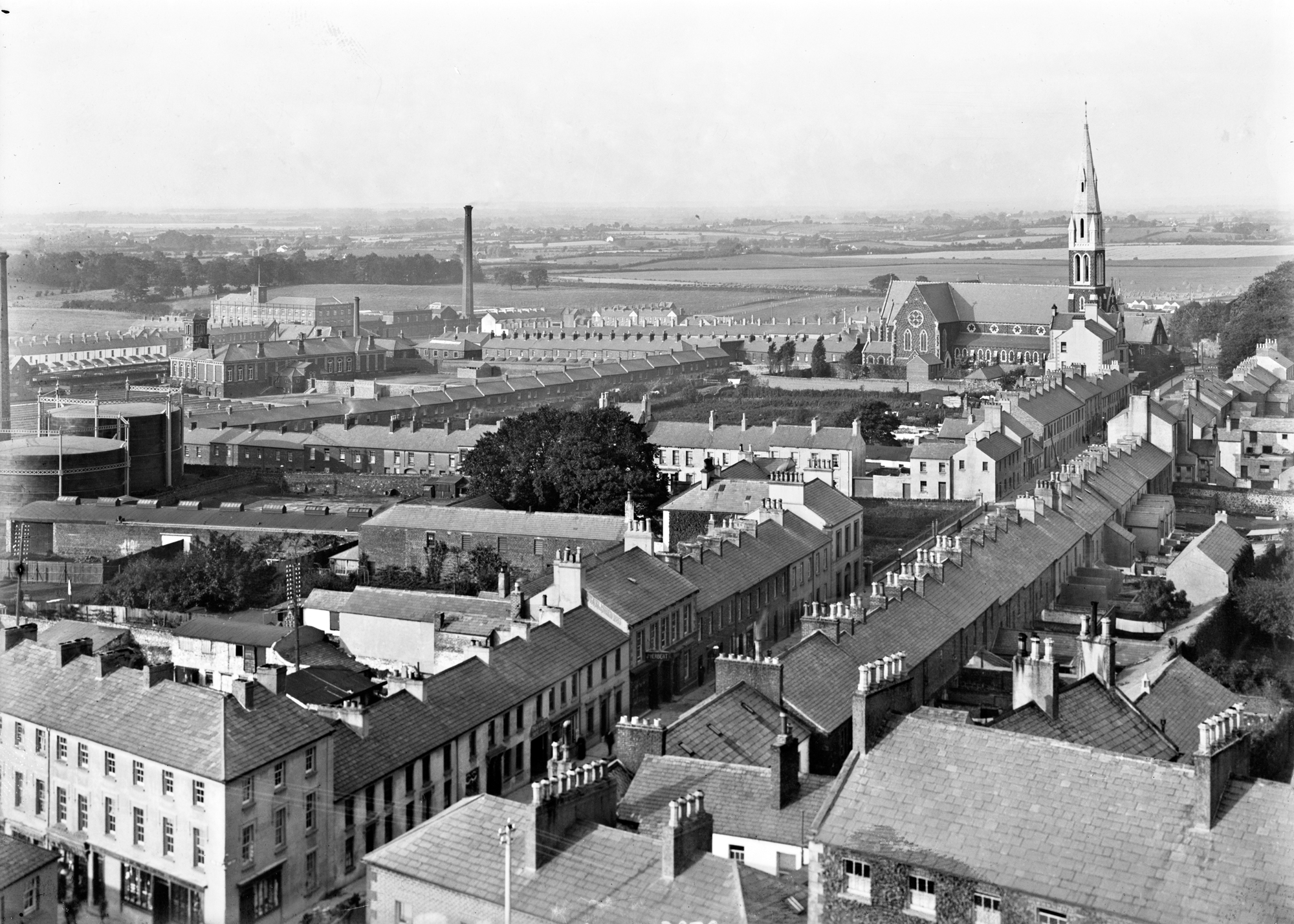 Before the days of helicopters and drones a church steeple or high hill provided a "birds eye view" as in this shot. Lurgan appears a well developed town with industry and institutions aplenty back when this shot was taken! Photographer: Unknown Collection: Eason Photographic Collection Date: between ca. 1900-1939 NLI Ref: EAS_3978 You can also view this image, and many thousands of others, on the NLI’s catalogue at